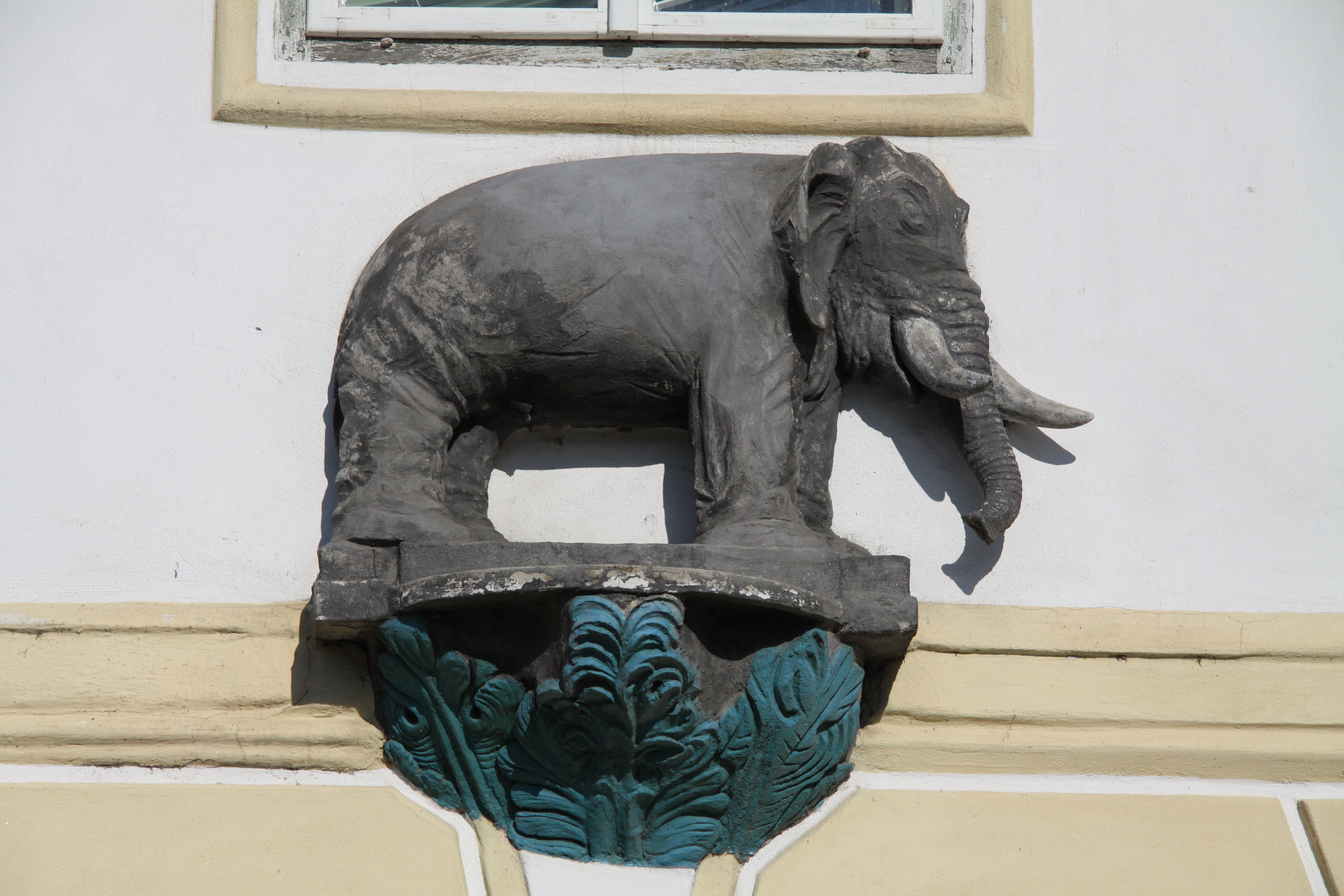 House sign in Písek, Czech Republic, called "Dům u Slona"